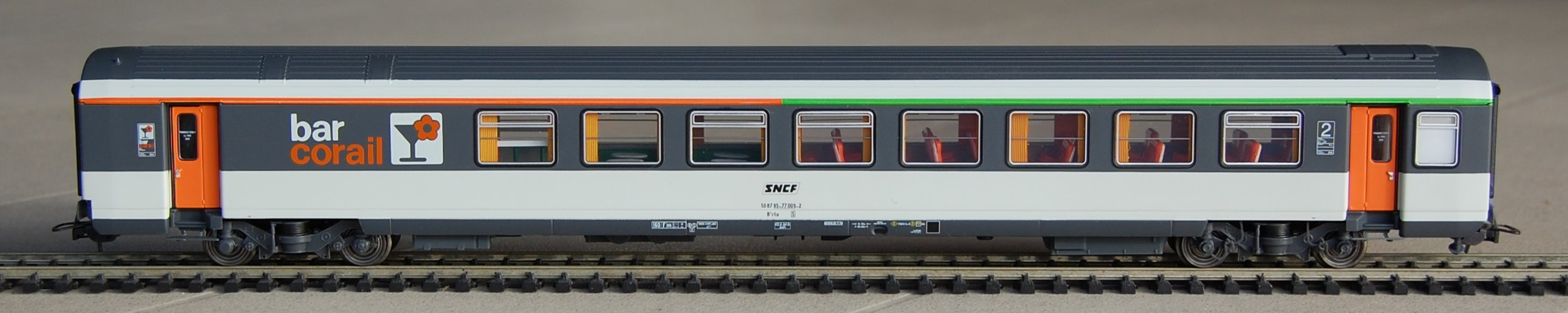 Bar Corail VTU Brtux, SNCF, France. Scale model by LS Models.